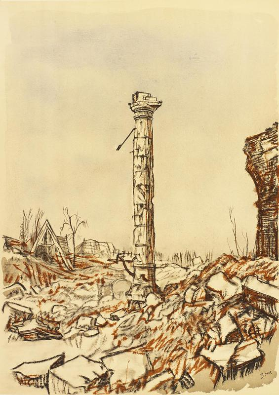 War Drawings by Muirhead Bone- Herbecourt Church